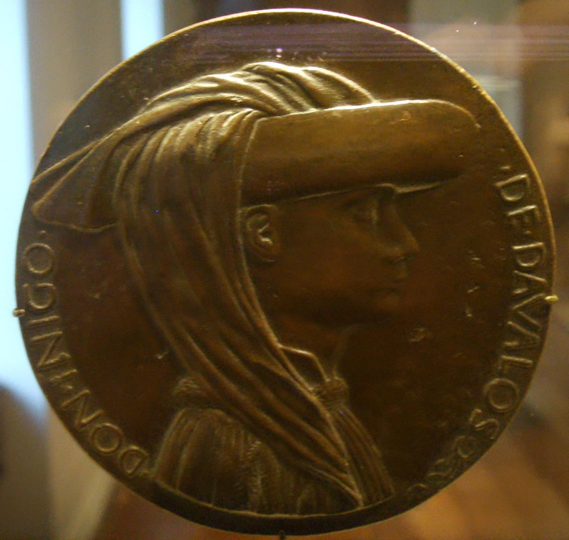 Medaglia di Don Iñigo d'Avalos, recto. National Gallery in Washington d.c.